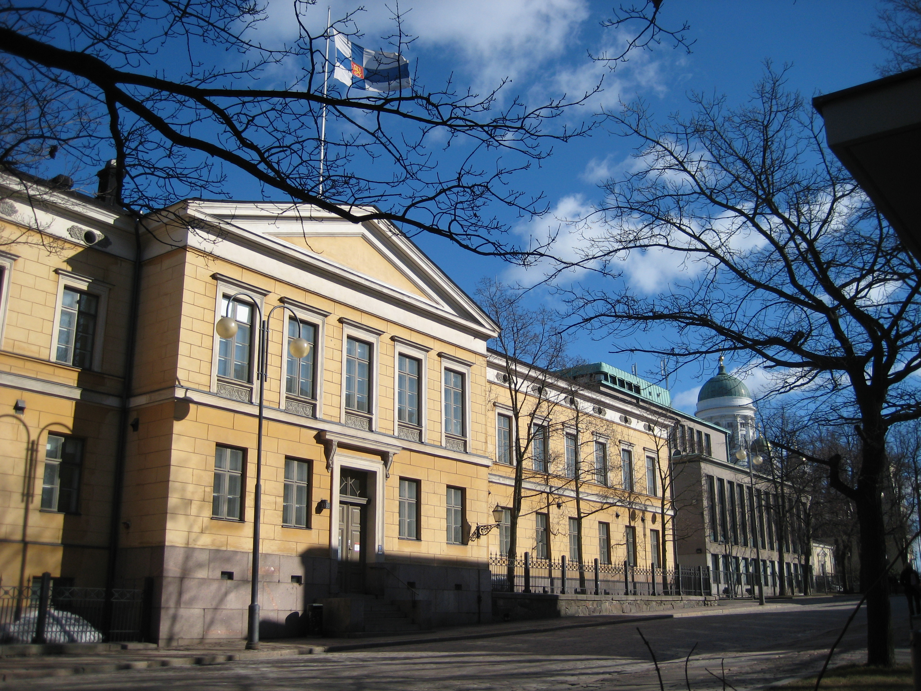 Aleksanteri Institute, University of Helsinki